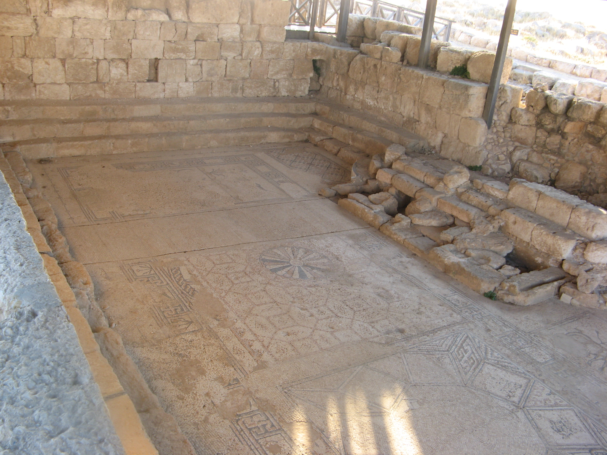 Interior of the synogouge of Susya